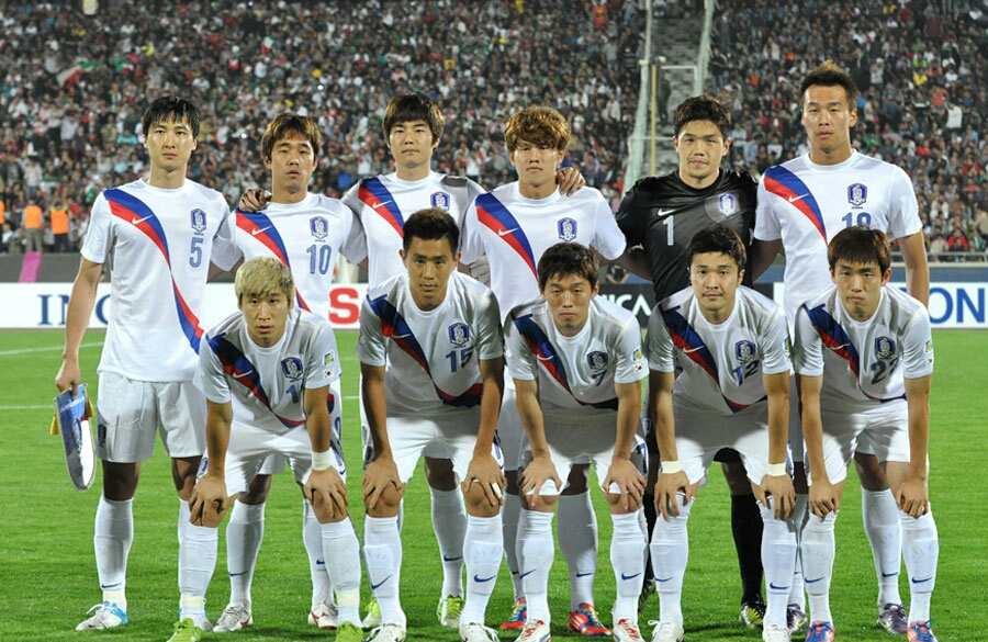 South Korea national football team - October 2012